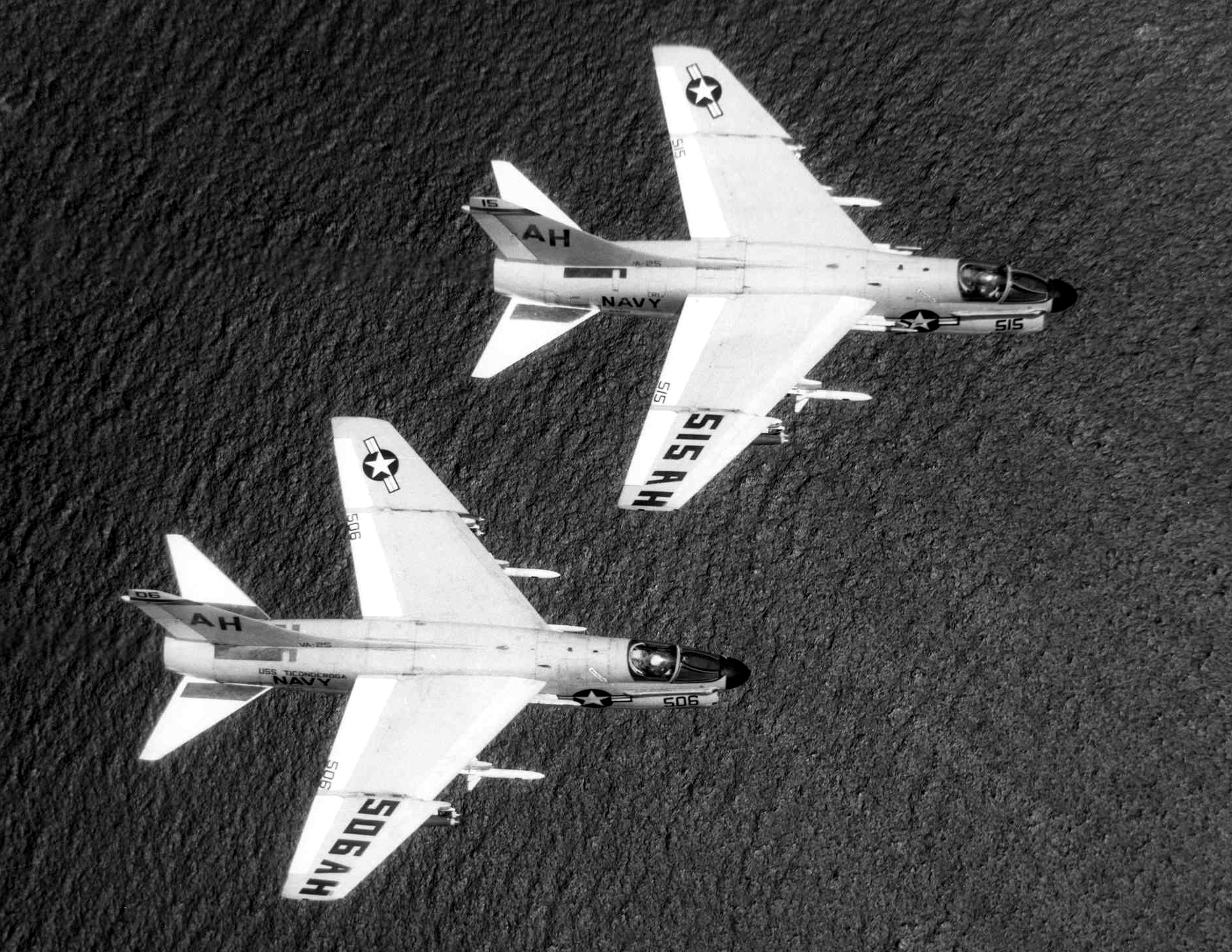 Two U.S. Navy Douglas A-7B Corsair II from attack squadron VA-25 Fist of the Fleet during an Ironhand mission over North Vietnam in 1969. VA-25 was assigned to Attack Carrier Air Wing 16 (CVW-16) aboard the aircraft carrier USS Ticonderoga (CVA-14) for a deployment to Vietnam from 1 February to 18 September 1969. Both aircraft are armed with Mk 82 bombs and AGM-45 Shrike anti-radiation missiles.